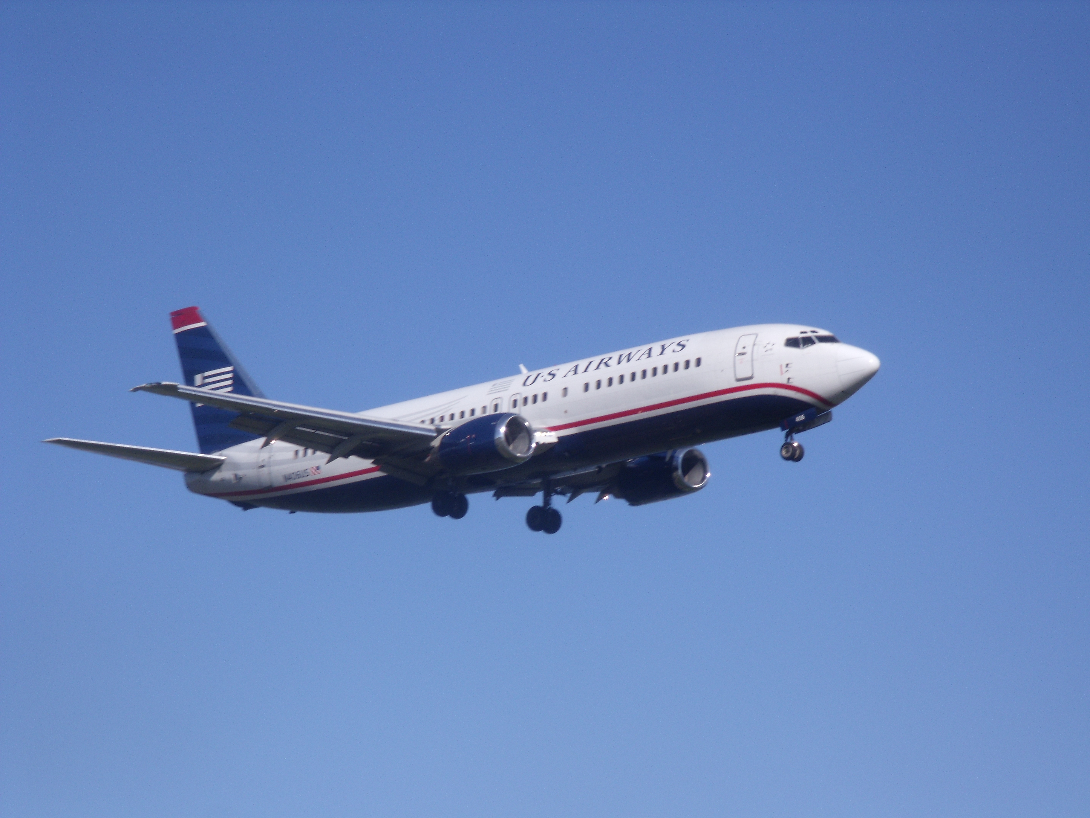 Landing at KDCA